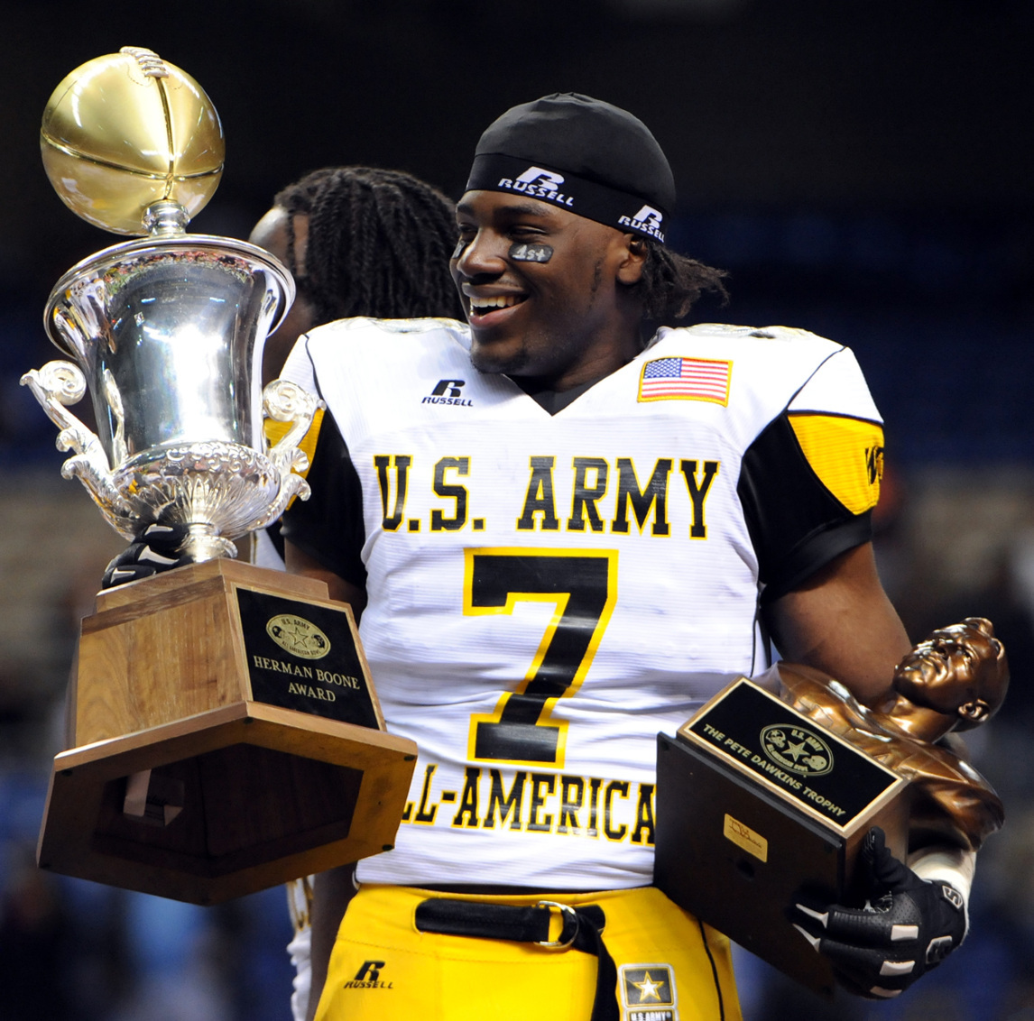 West All-Star defensive end Ronald Powell of Rancho Verde High School in Moreno Valley, Calif., holds the Herman Boone Trophy for his team's 30-14 victory over the East All-Stars and the Pete Dawkins MVP Trophy awarded to the Most Valuable Player in the 2010 U.S. Army All-American Bowl on Jan. 9 at the Alamodome in San Antonio, Texas. Powell made five tackles, including one sack.